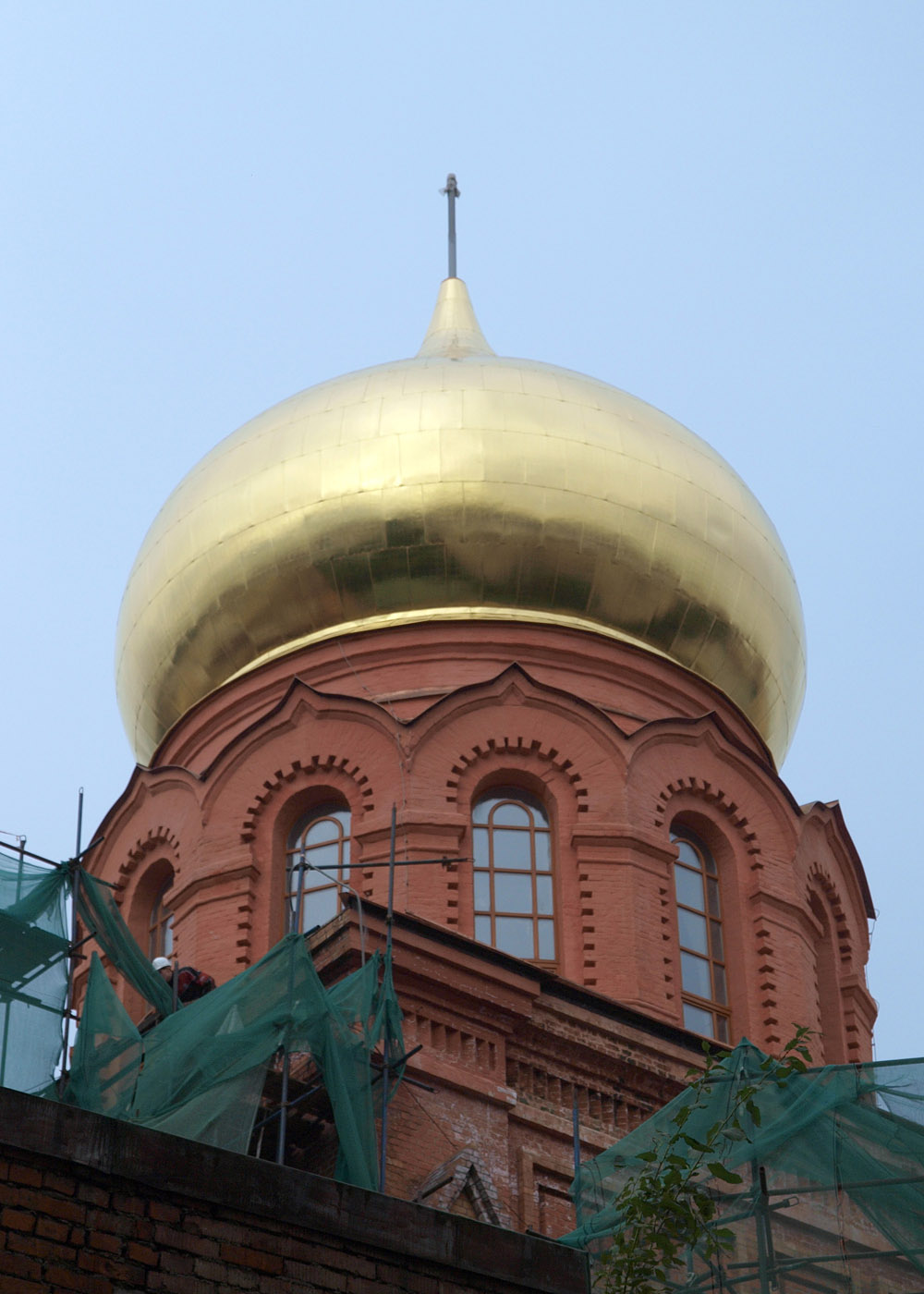 Dome of the Saint Tikhon University in Moscow, under construction, summer of 2008